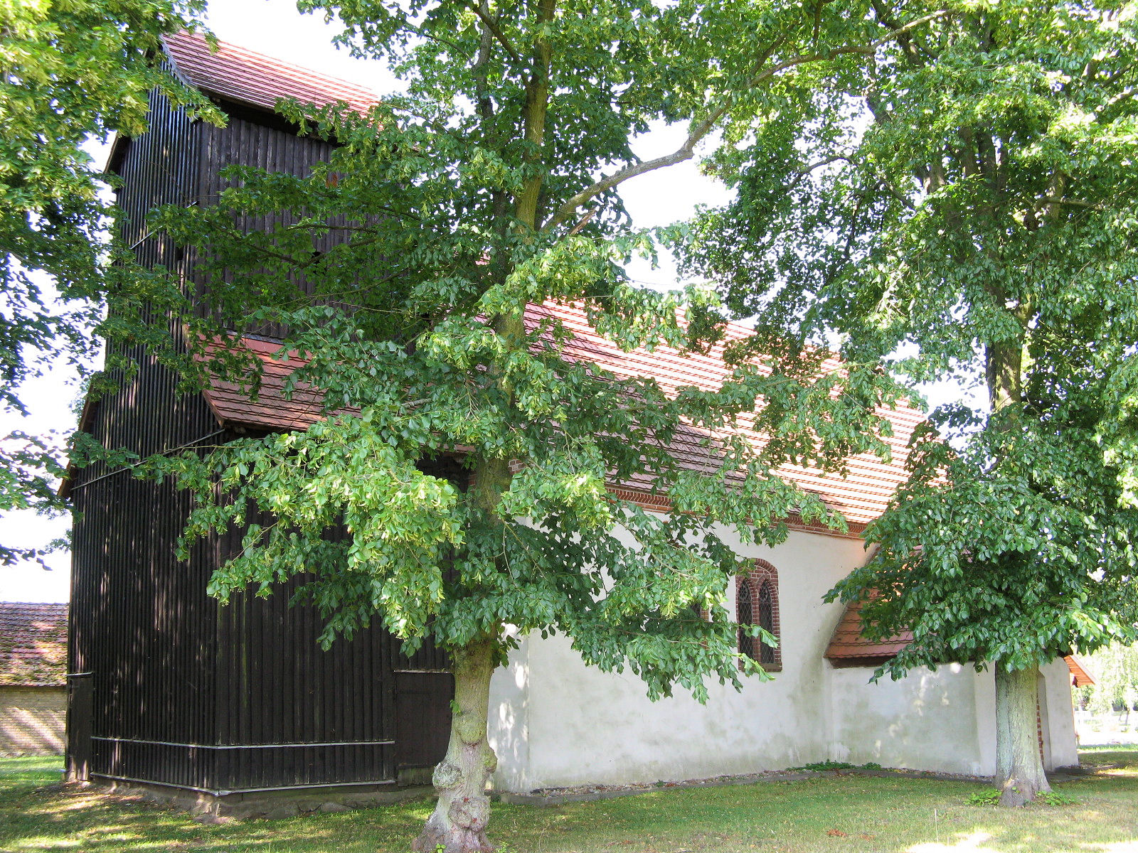 Church in Kieve, disctrict Mecklenburgische Seenplatte, Mecklenburg-Vorpommern, Germany